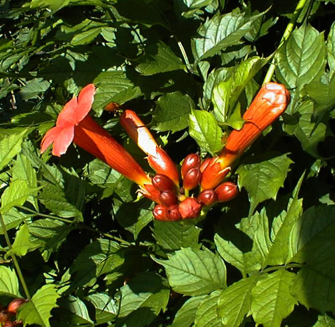 Campsis radicans plant in my backyard, about 2 metres tall and several years old, flowers began this year (2005) at the start of July. The smell of the flowers mainly attracts flies...